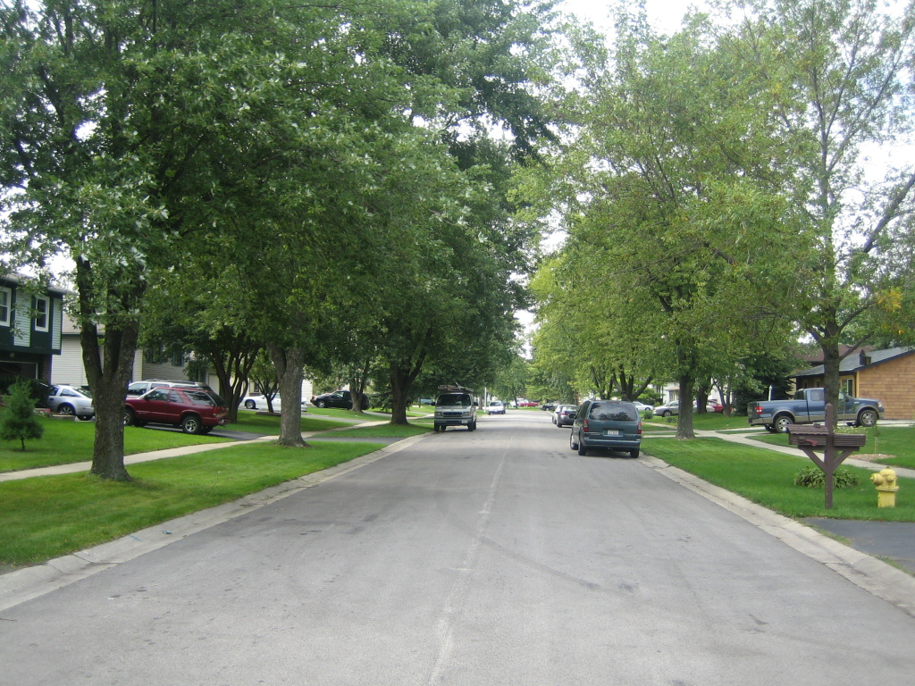 Your average neighborhood street in Bolingbrook, IL.